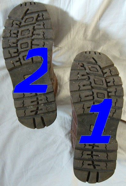 12 Steps to sobriety